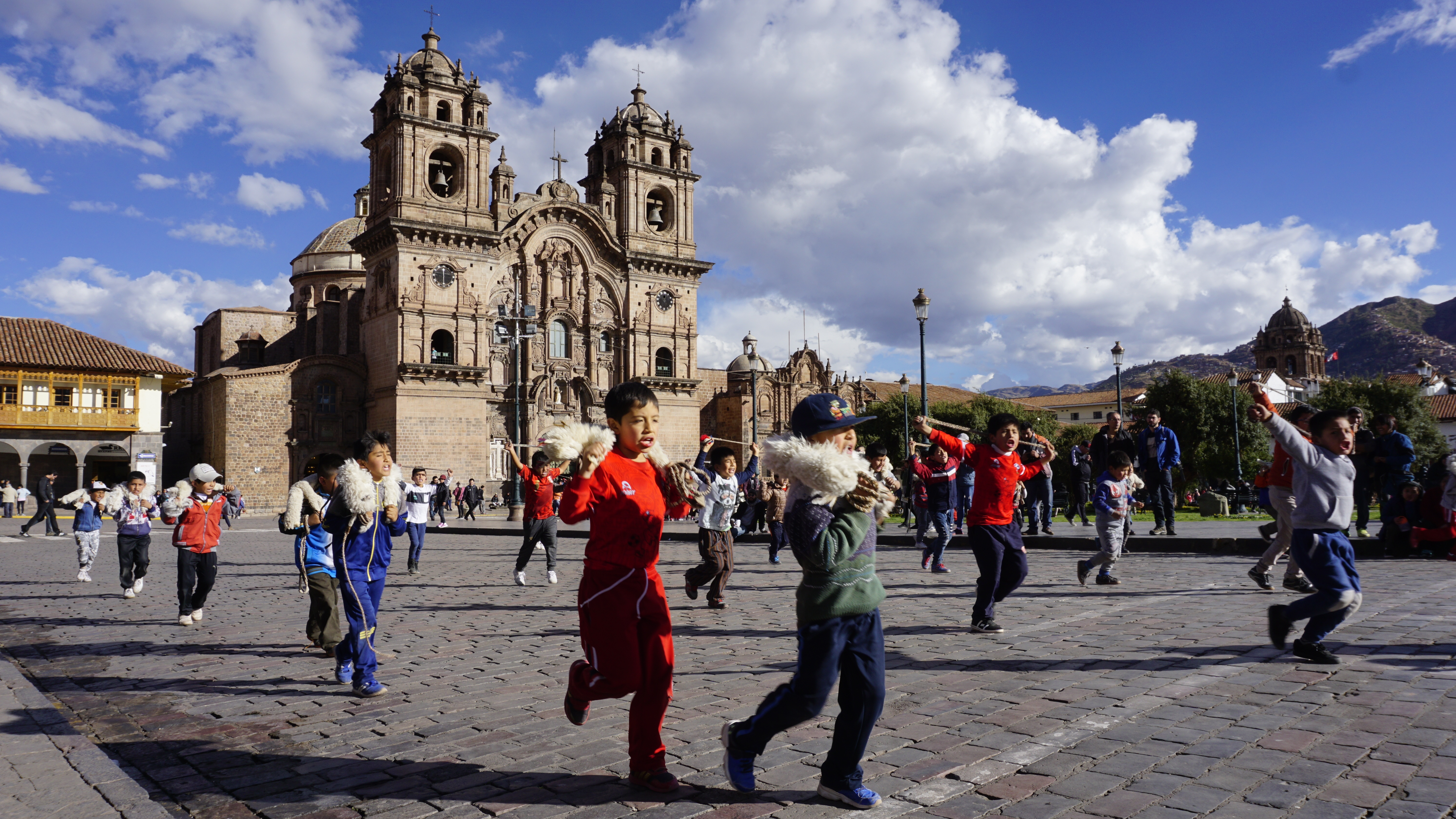 Kids rehearsing for school festival in Plaza De Armas, Cusco Peru